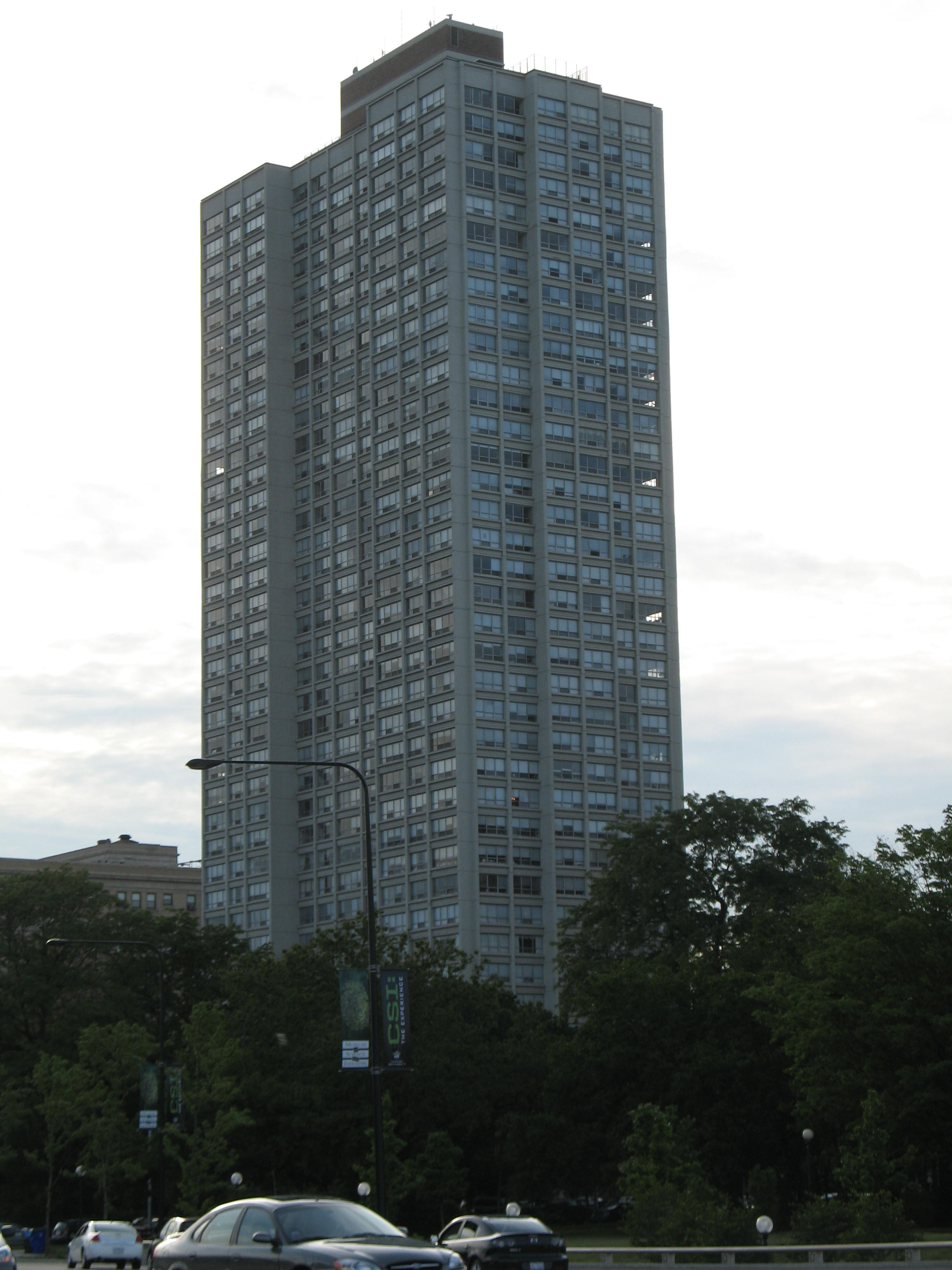 Hyde Park hosts 1700 East 56th Street the tallest building in Chicago south of 13th Street.